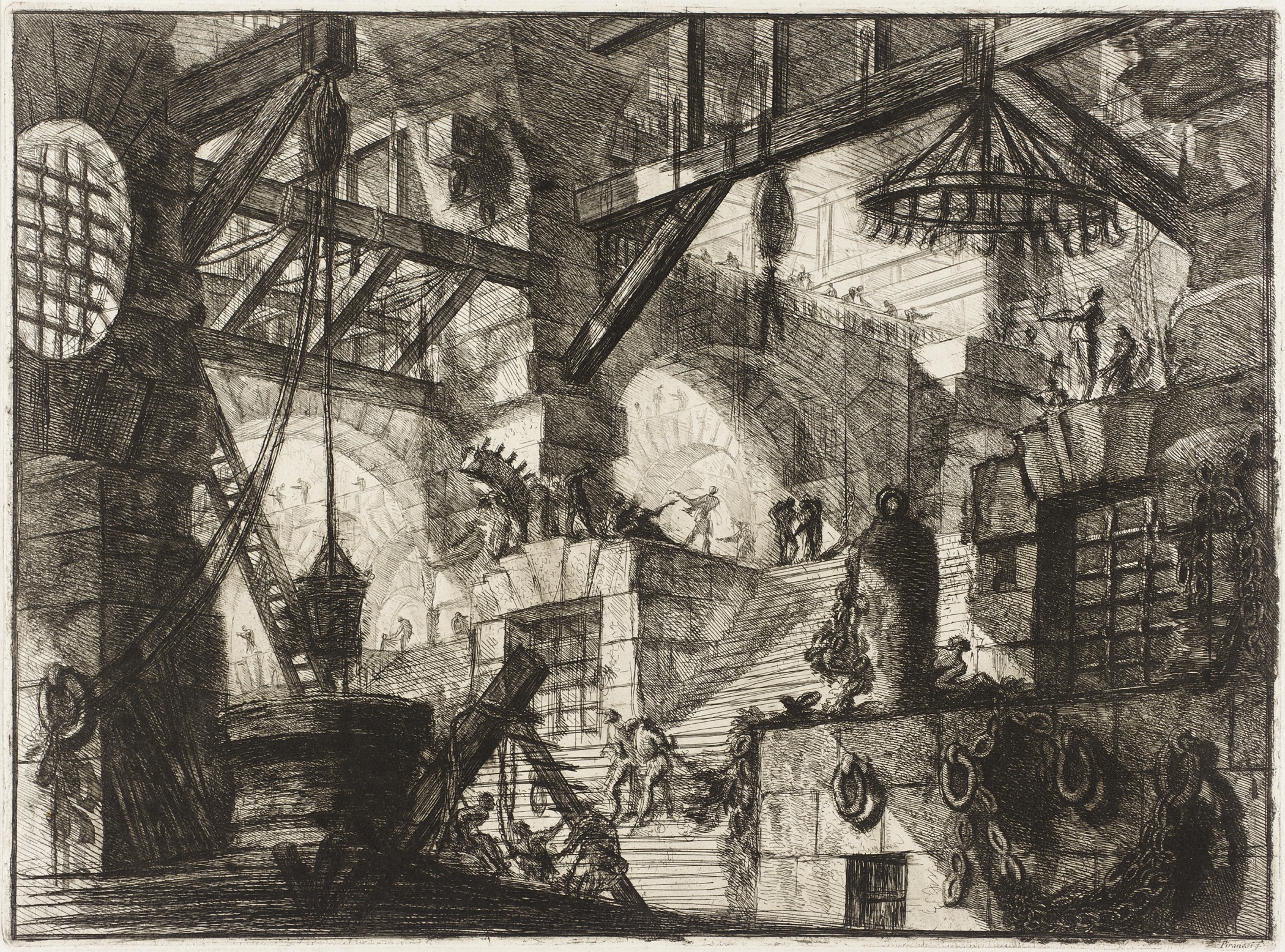 Italy, 1761 Series: Le Carceri d'invenzione, pl. XIII Prints; etchings Etching William Randolph Hearst Collection (46.27.13) Prints and Drawings